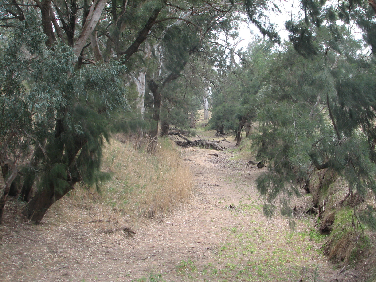 This is at the crossing of the Talbragar River, on the road from Cobbora to Mendooran, about 1 km north of Cobbora. This river was in flood one month after this photo was made.